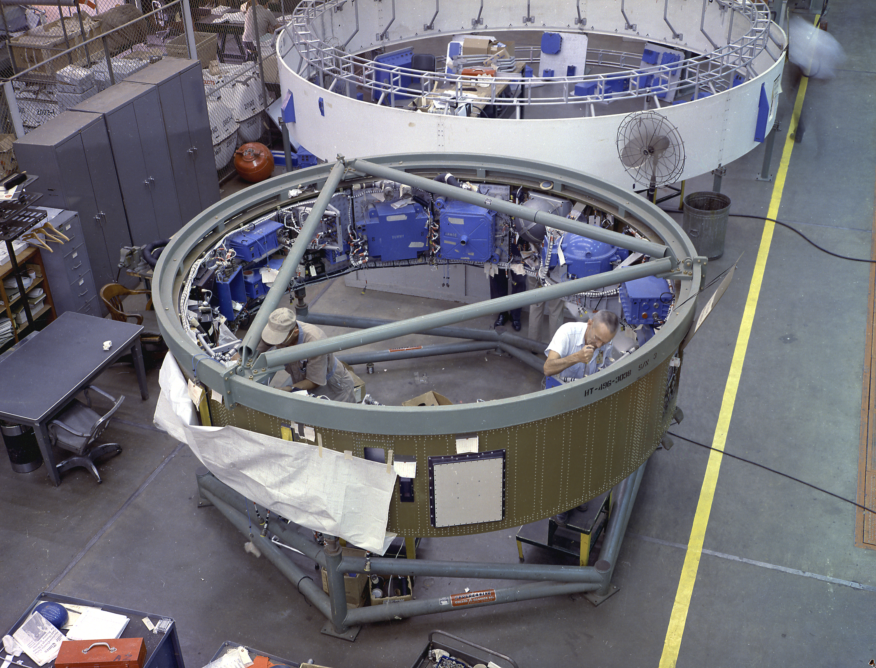 Early Instrument Unit at Marshall Space Flight Center Building 4705. The smaller size of this version 2 of the Instrument Unit is apparent when compared to white IU behind it and to the next image in this gallery. Original text: Title: Instrument Unit Author(s): NONE Abstract: This image depicts a high angle view of technicians working on the instrument unit (IU) component assembly for the SA-8 mission in Marshall Space Flight Center's building 4705. A thin, circular structure, only 1-meter high and 7.6 meters in diameter, the IU was sandwiched between the S-IV and Apollo spacecraft. Packed inside were the computers, gyroscopes, and assorted black boxes necessary to keep the launch vehicle properly functioning and on its course. NASA Center: Marshall Space Flight Center Publication Date: 1964-09-01 Online Source: View Image File Accession ID: MSFC-6412716 Updated/Added to NTRS: 2007-10-12